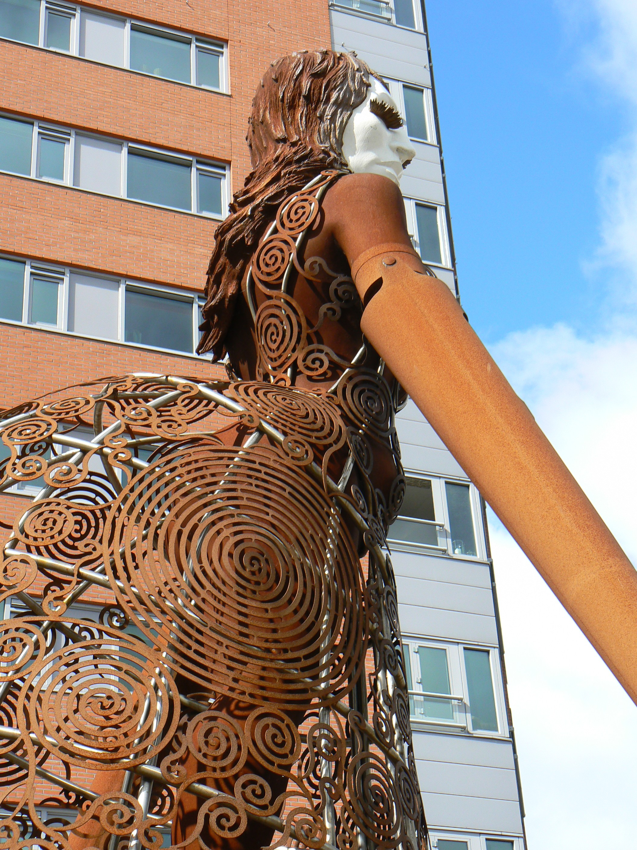 sculpture Ultra by Silvia B in Groningen/The Netherlands